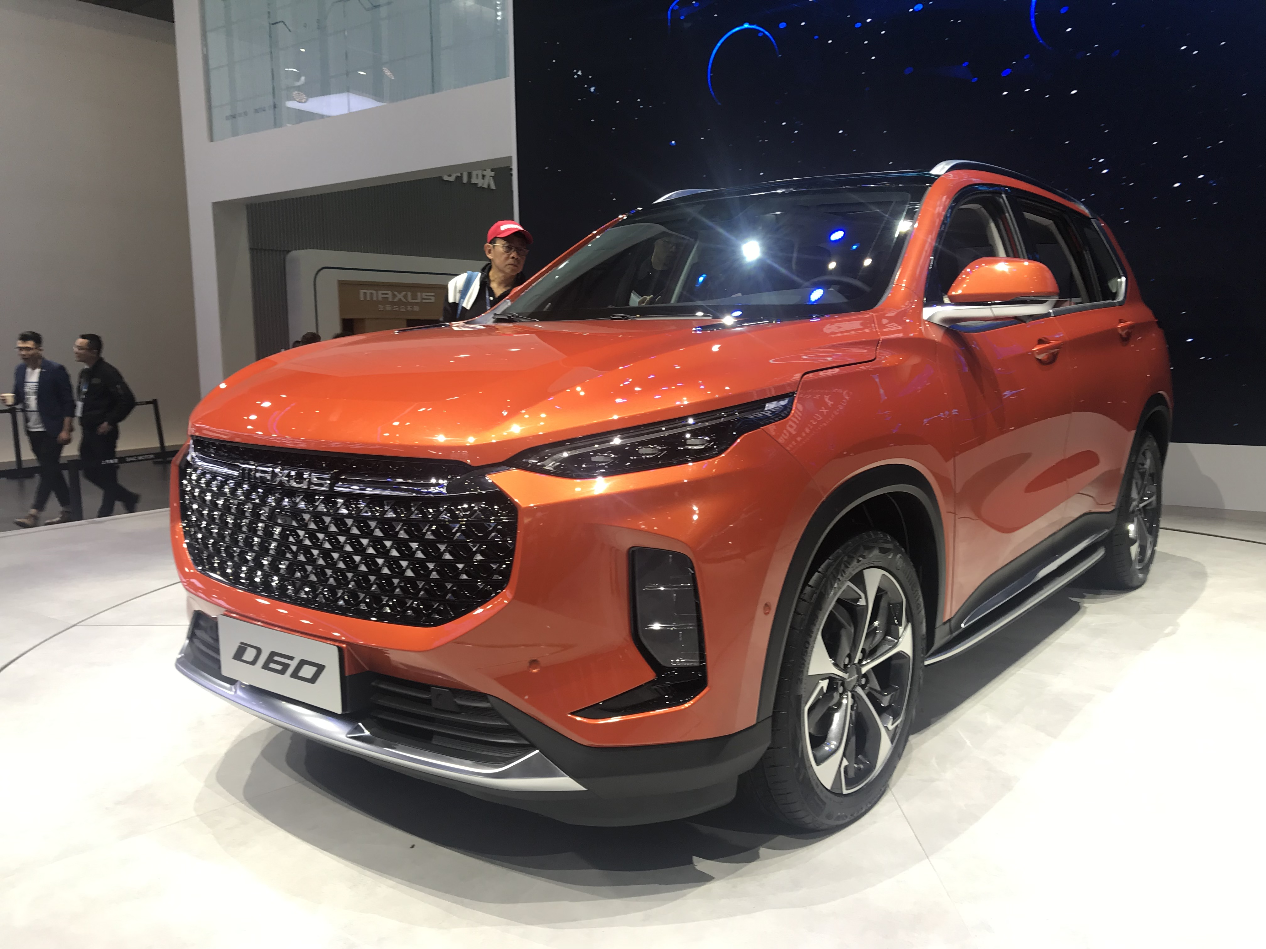 Maxus D60 front